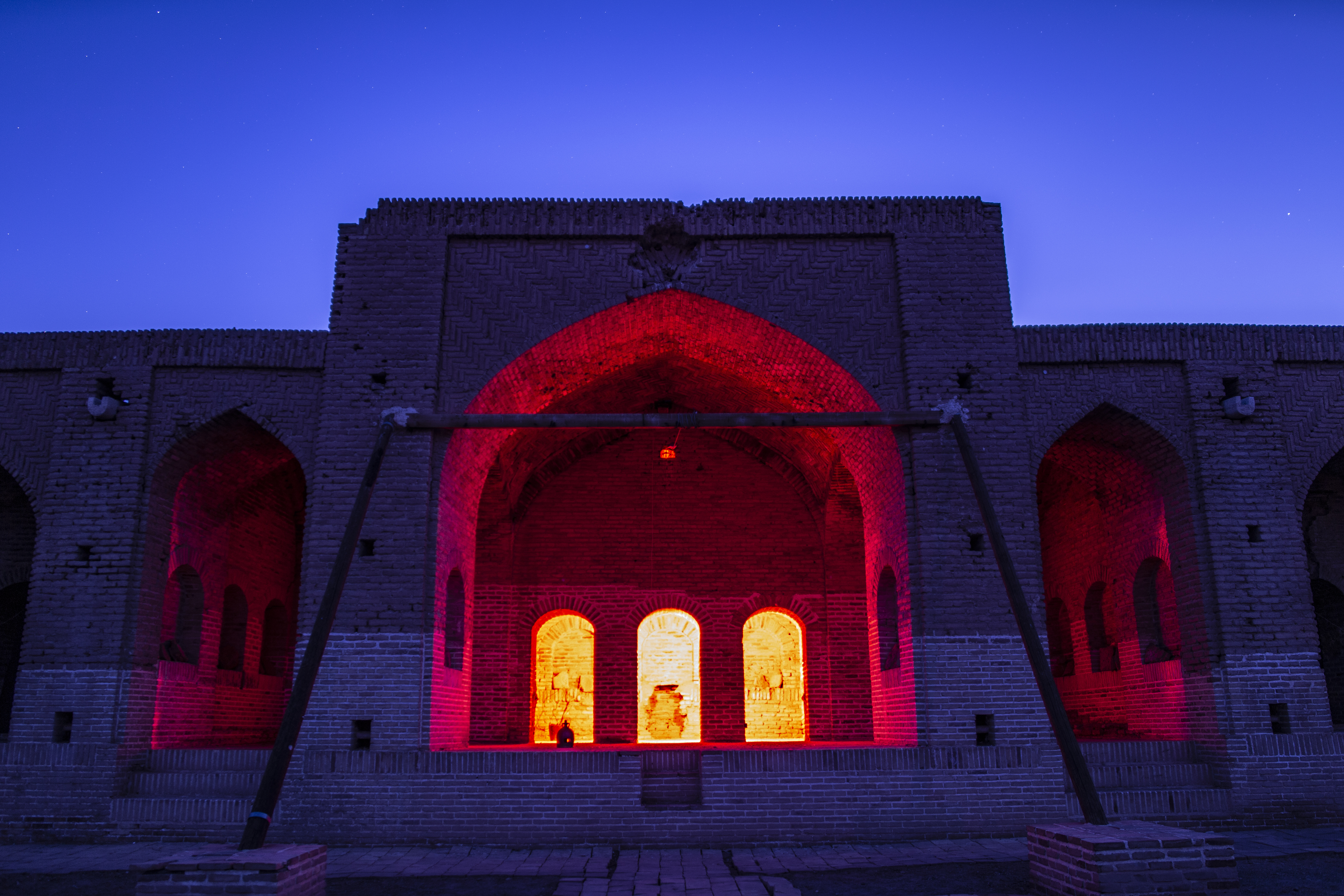 Deir-e Gachin Caravansarai is one of the greatest caravansarais of Iran which is located in the center of Kavir National Park. Its unique qualities is the reason it is called “Mother of Iranian Caravansarais”. It is located in the Central District of Qom County, 80 kilometers north-east of Qom (60 kilometers into Garmsar Freeway) and 35 kilometers south-west of Varamin. (Photo by: Mostafa Meraji, wiki loves monuments 2018)